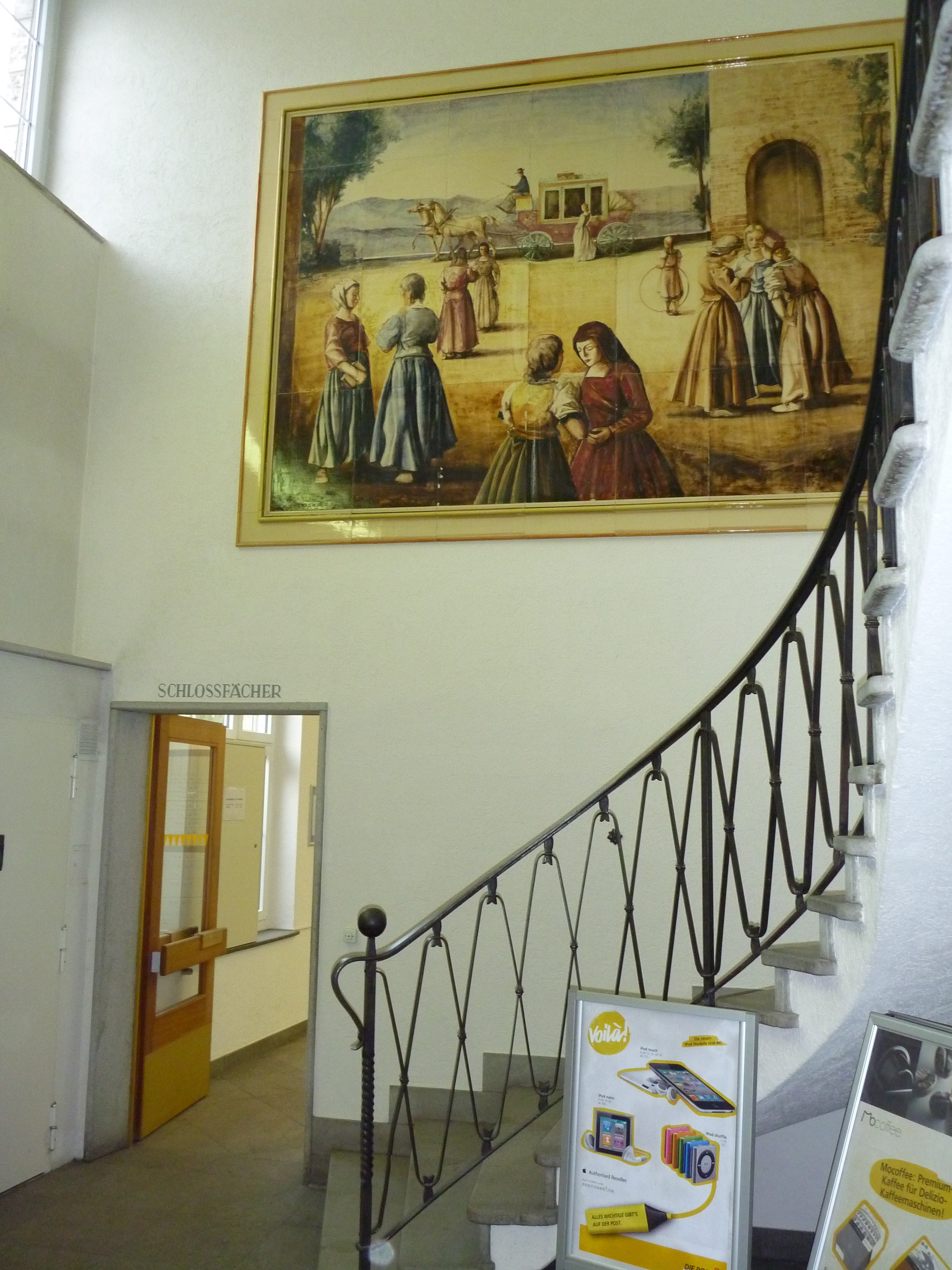 Foyer of Post Building in Arosa, painting by Ponziano Togni (1950)